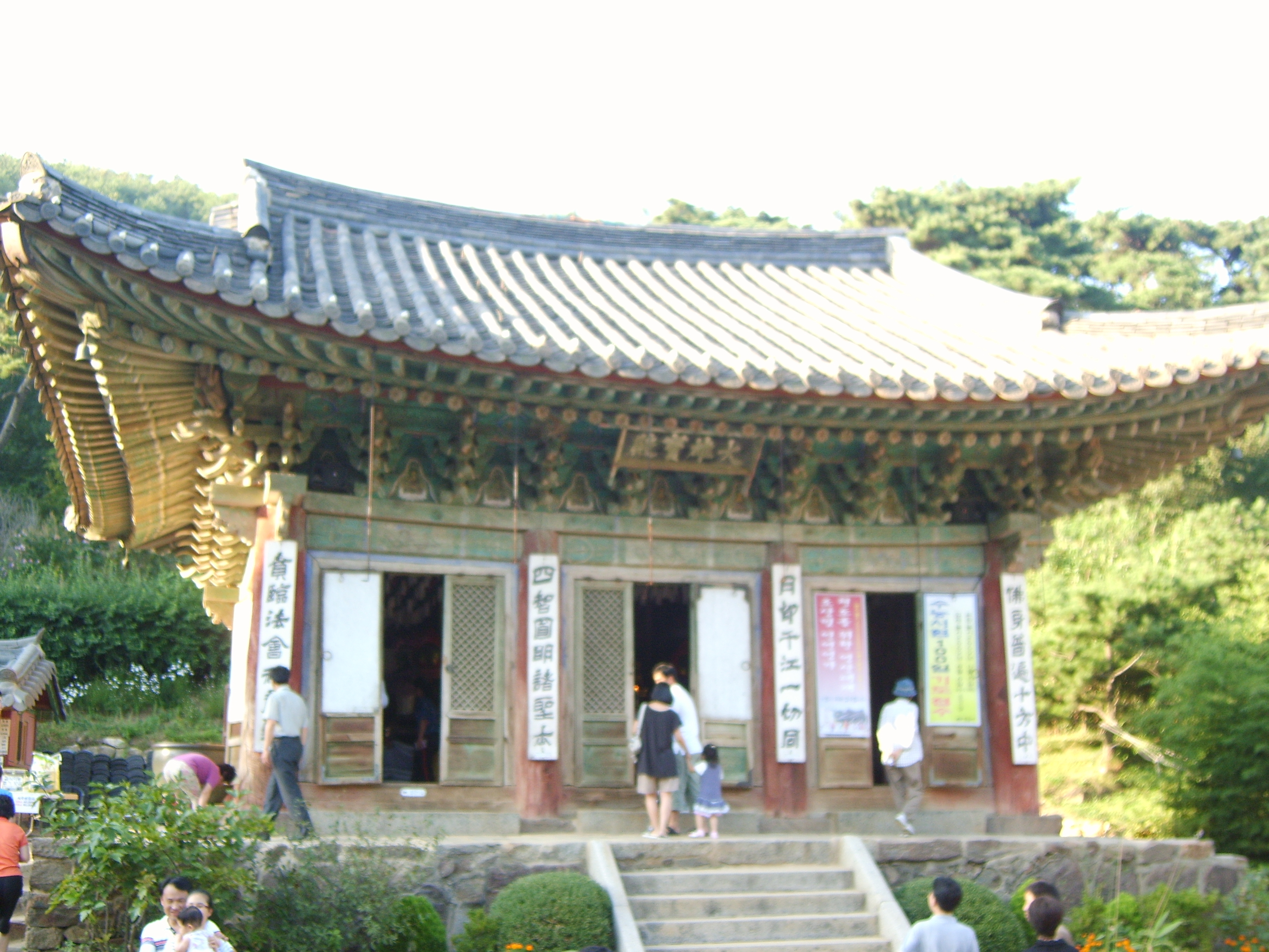 Dae-ungbojeon at Jeondeungsa in Ganghwa, Korea